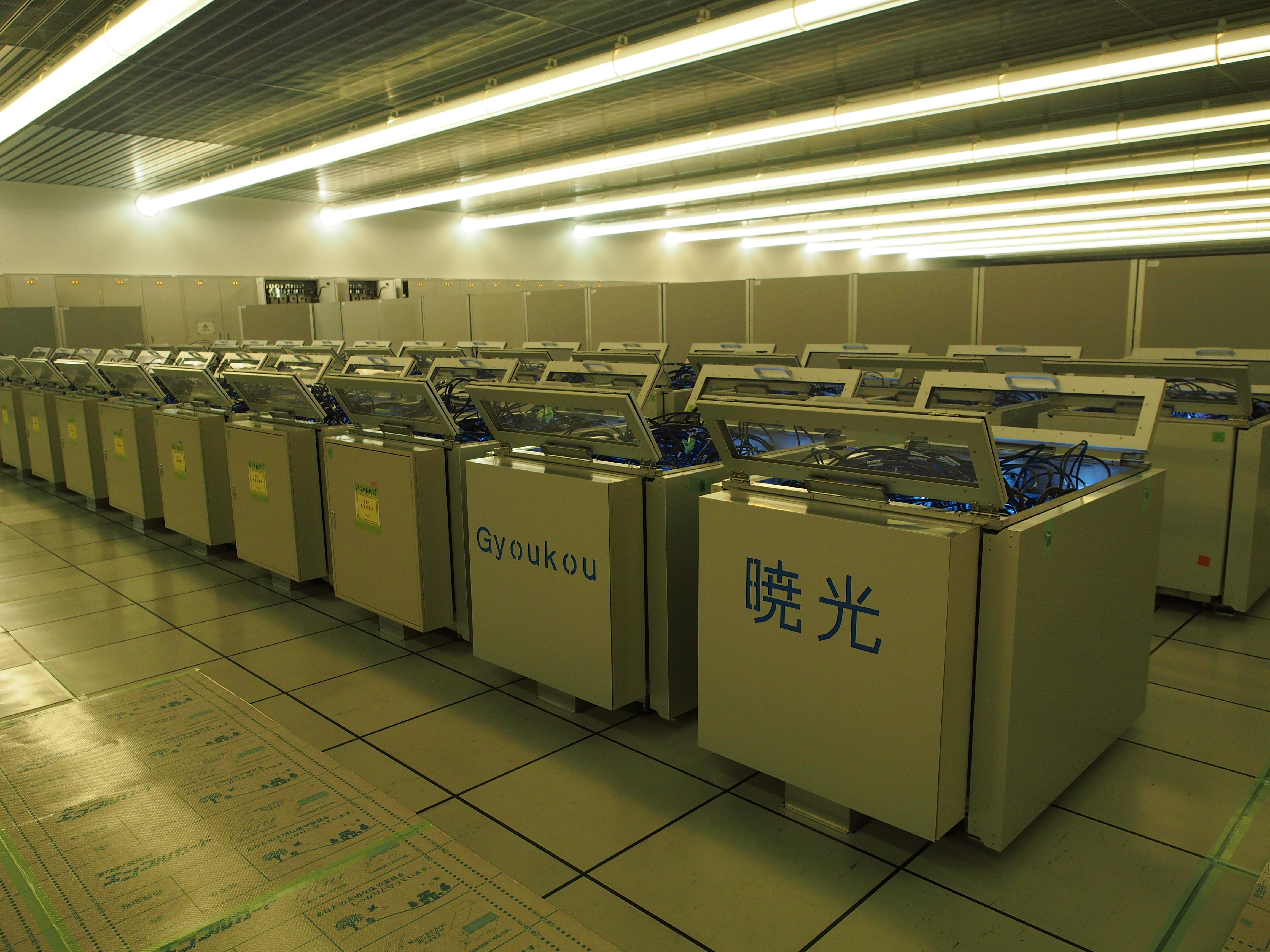 Gyoukou supercomputer, which ranked 4th on the November 2017 list of TOP500 supercomputer ranking. Photographed on the open house day of JAMSTEC Yokohama Institute for Earth Sciences